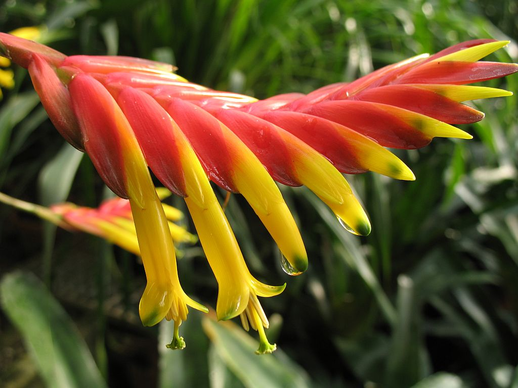 Vriesea carinata in cultivation at the Botanical Garden of Heidelberg, Germany.